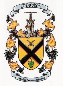 This is the known Coat of Arms of the O'Dubhda Clan, Ireland